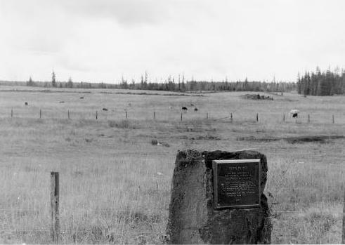 Weippe Prairie: view south from Highway 11, west of town of Weippe, Idaho, NHL Plaque overlooks site of western 1805 Nez Perce Village. JPG photo cropped to remove border.